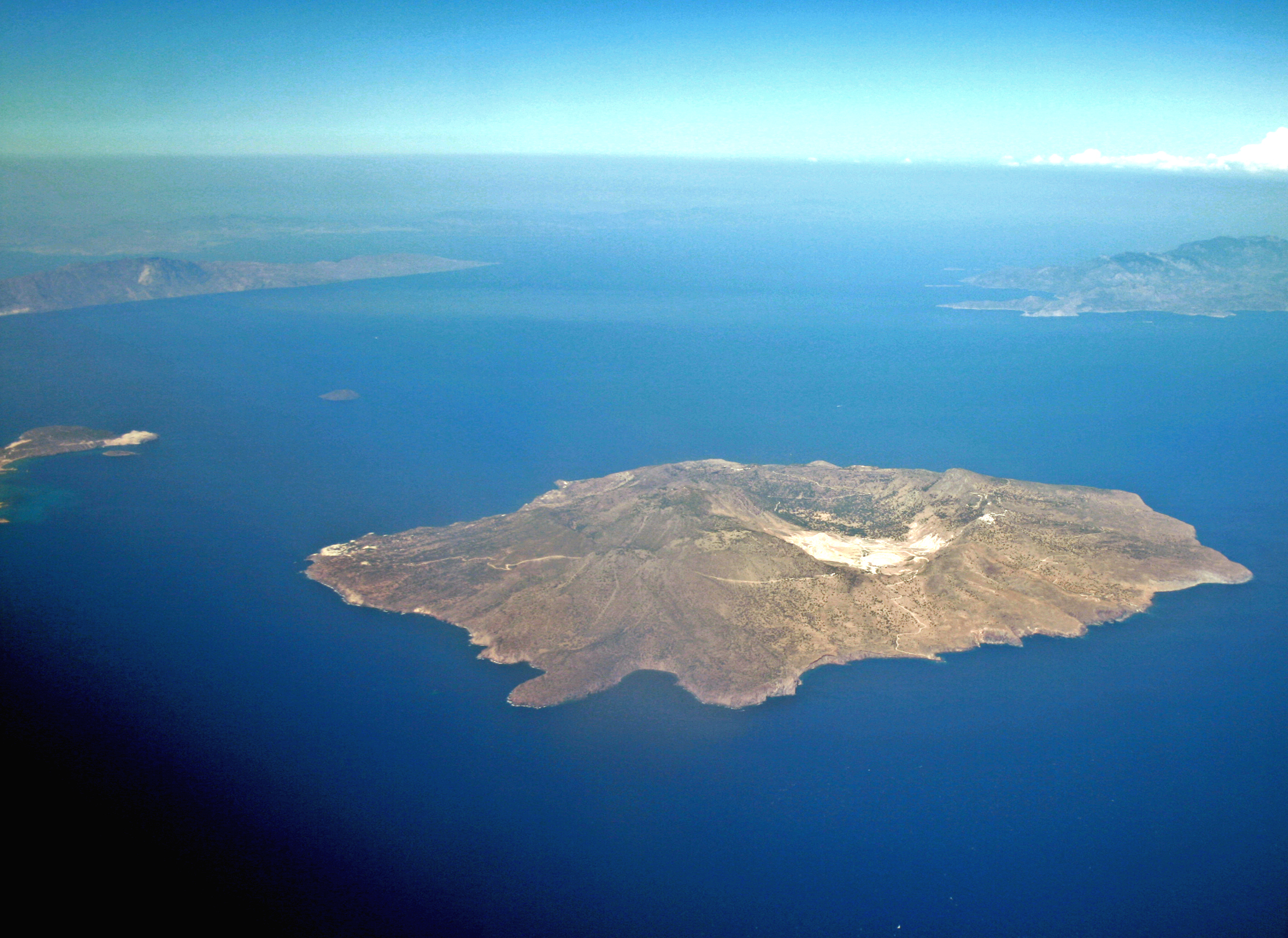 Greece island Nisyros from air